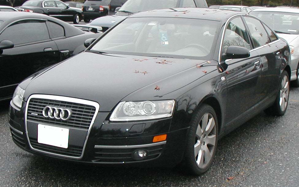 2004-2006 Audi A6 photographed in USA.